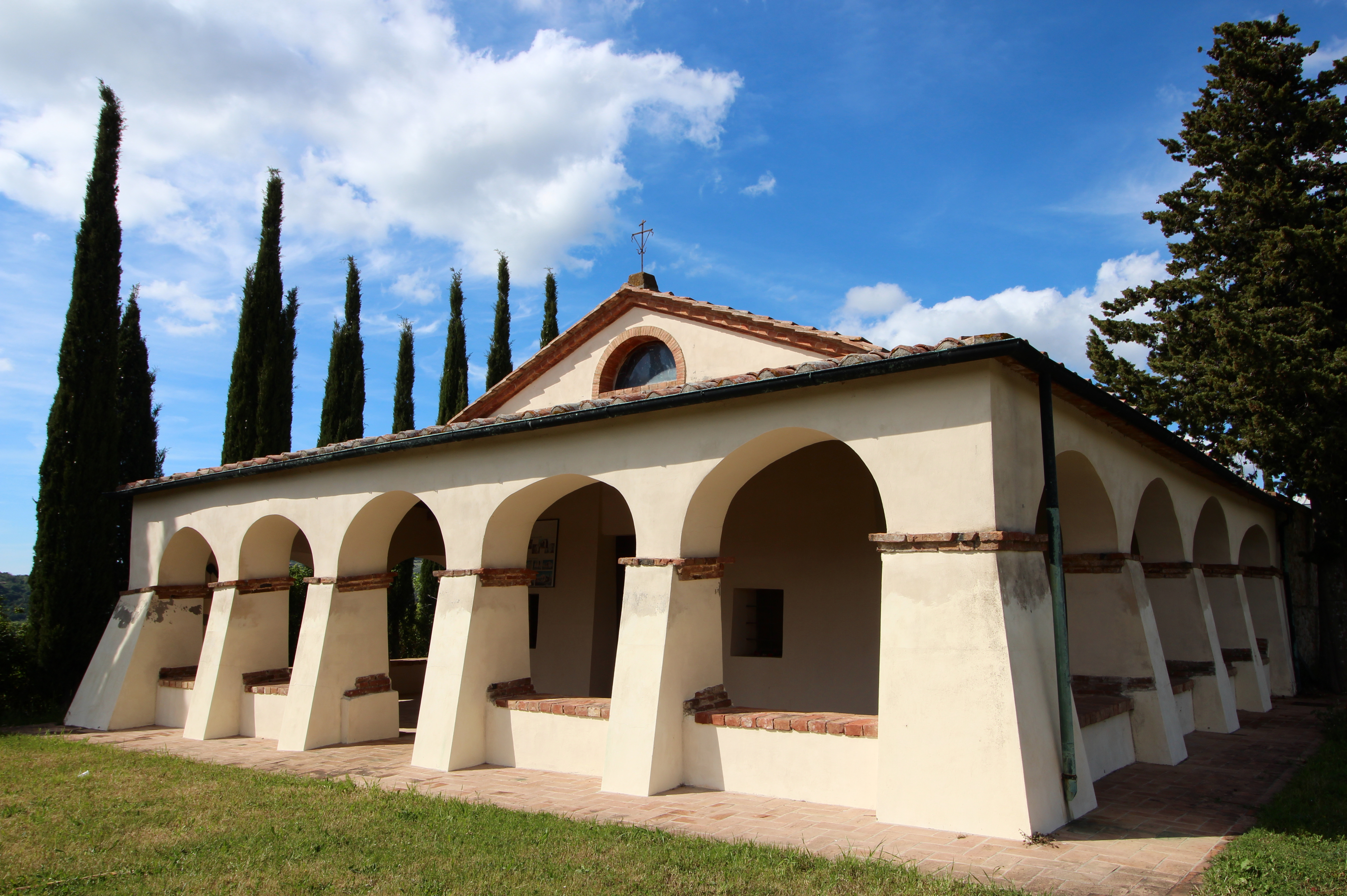 Church and Sanctuary Madonna del Libro, near La Leccia, village in the territory of Castelnuovo di Val di Cecina, Province of Pisa, Tuscany, Italy